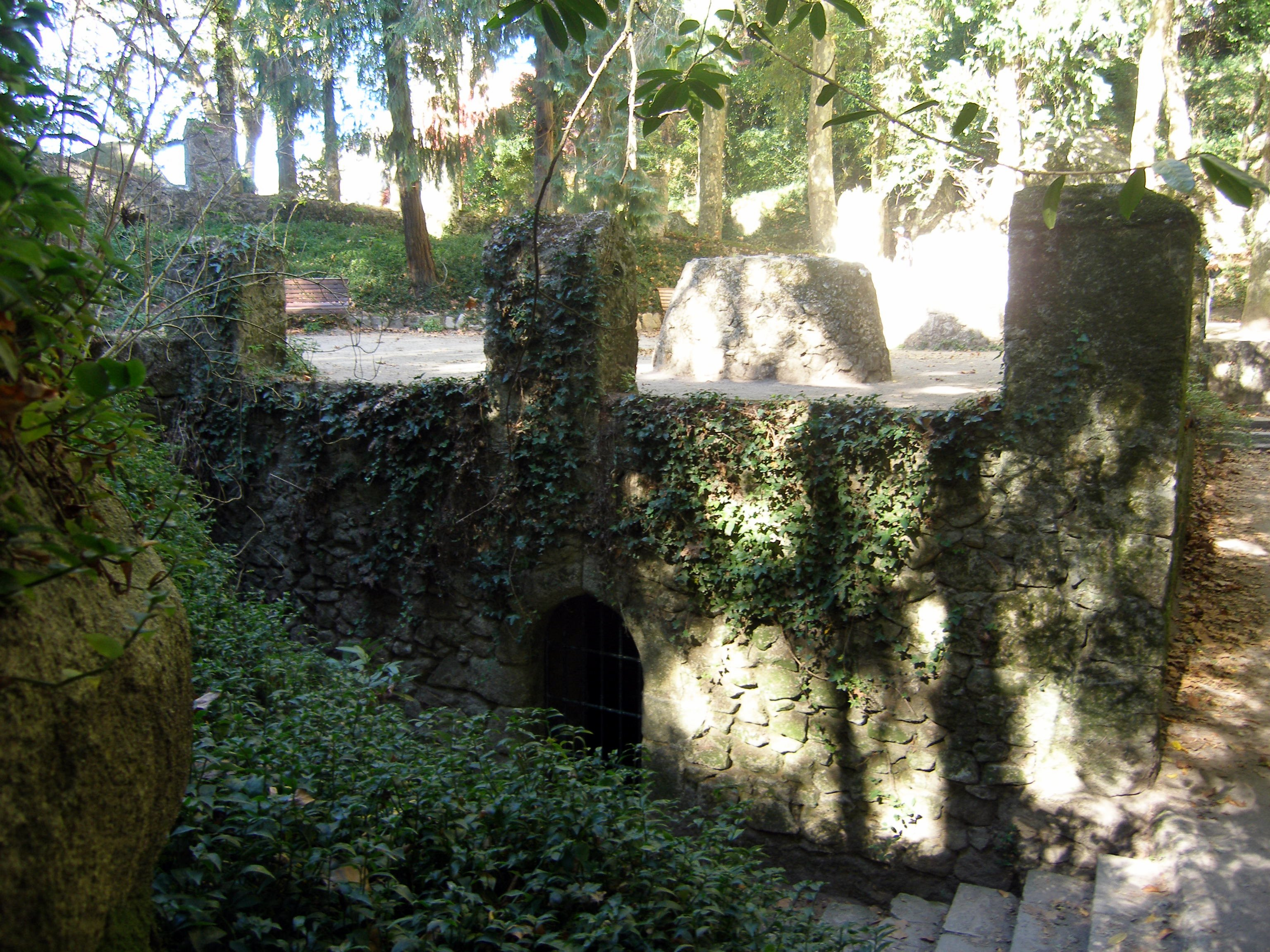 Cistern at Castelo dos Mouros, in Sintra. This file was uploaded for Wiki Loves Monuments in Portugal with the unique identifier 336929.